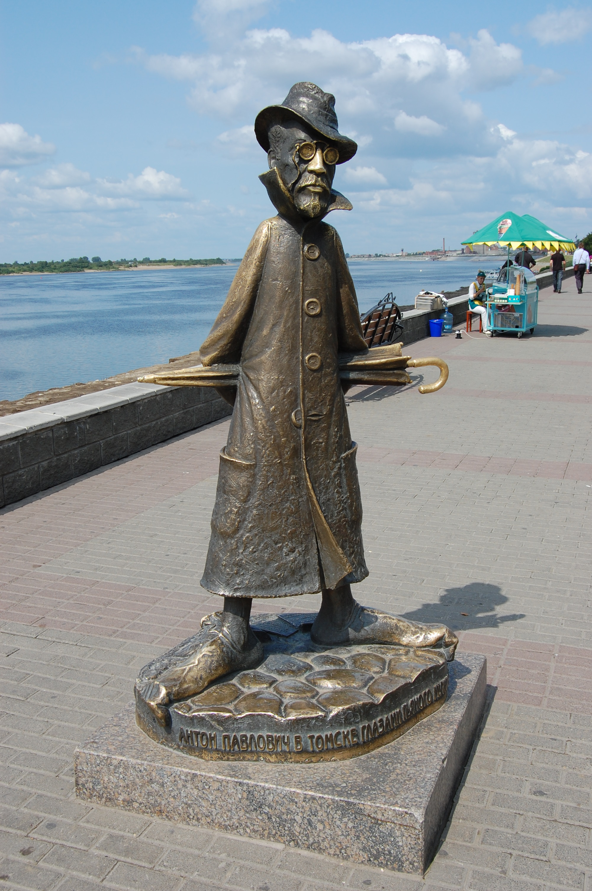 Statue of Anton Pavlovich Chekhov (Антон Павлович Чехов) on the Tomsk riverfront